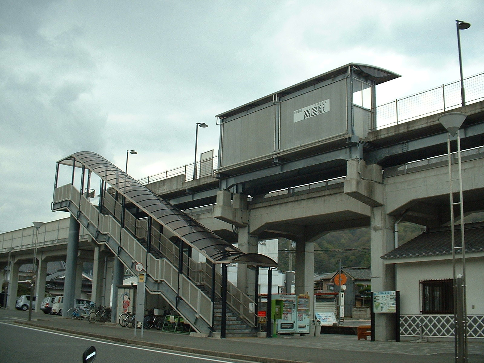 Takaya Station (Ibara-shi, Okayama) April, 2006 of Ibara Railway.